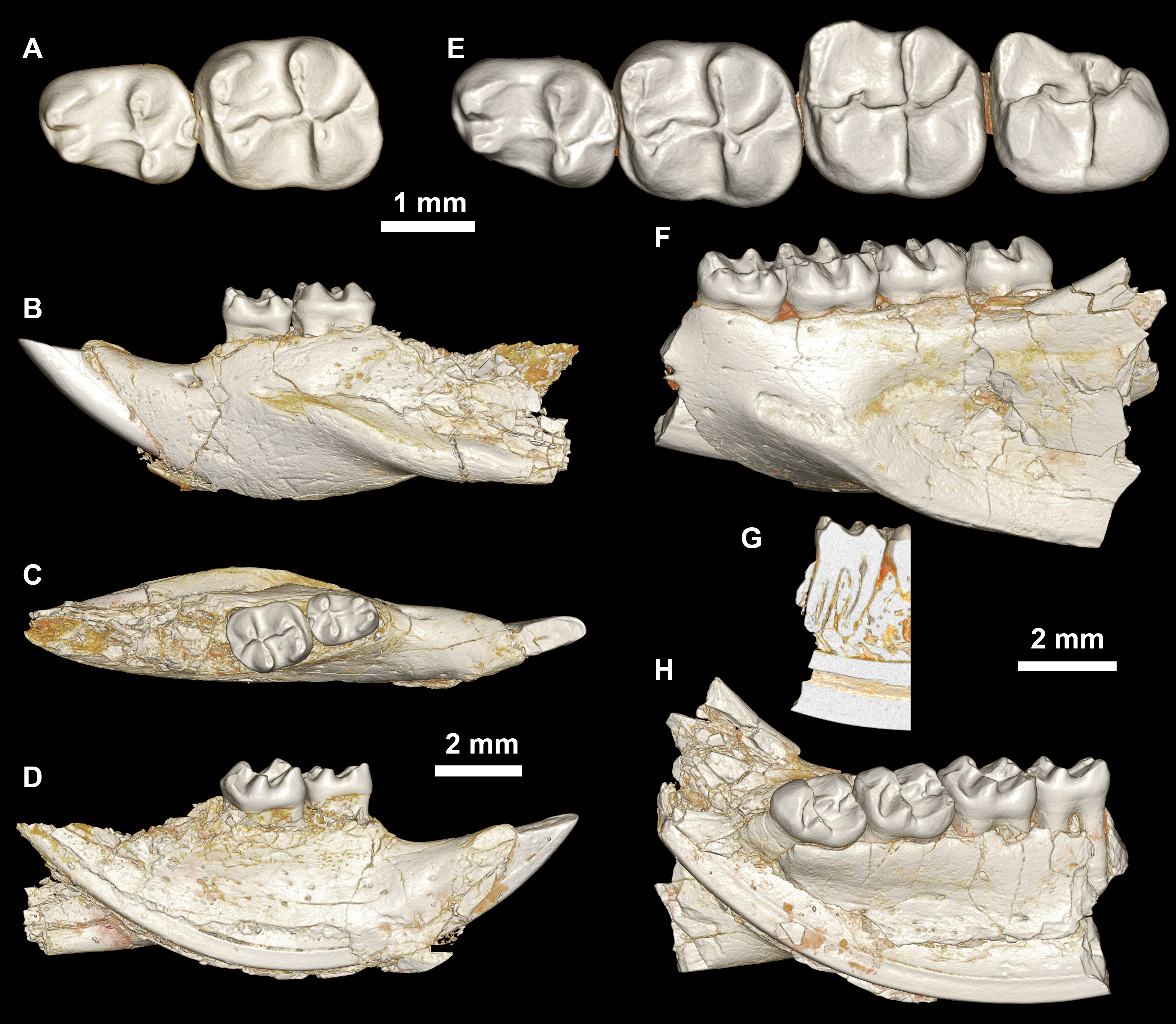 Mubhammys, lower dentition of Mubhammys vadumensis, A-D: DPC 14141 left mandibular fragment and lower dentition (dP4-M1), A: occlusal surface, B: lateral, C: dorsal and D: medial views; E-H: DPC 13220 left mandibular fragment and lower dentition (dP4-M), E: occlusal surface, F: lateral, and H: medial views and G: micro-CT scans, illustrating the deep roots of the dP4 in cross-section; locality L-41, Jebel Qatrani Formation, Fayum, northern Egypt, latest Eocene